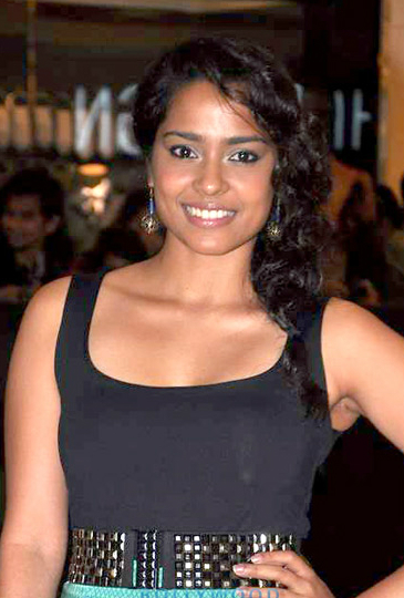 Shahana Goswami at the premiere of 'Talaash'